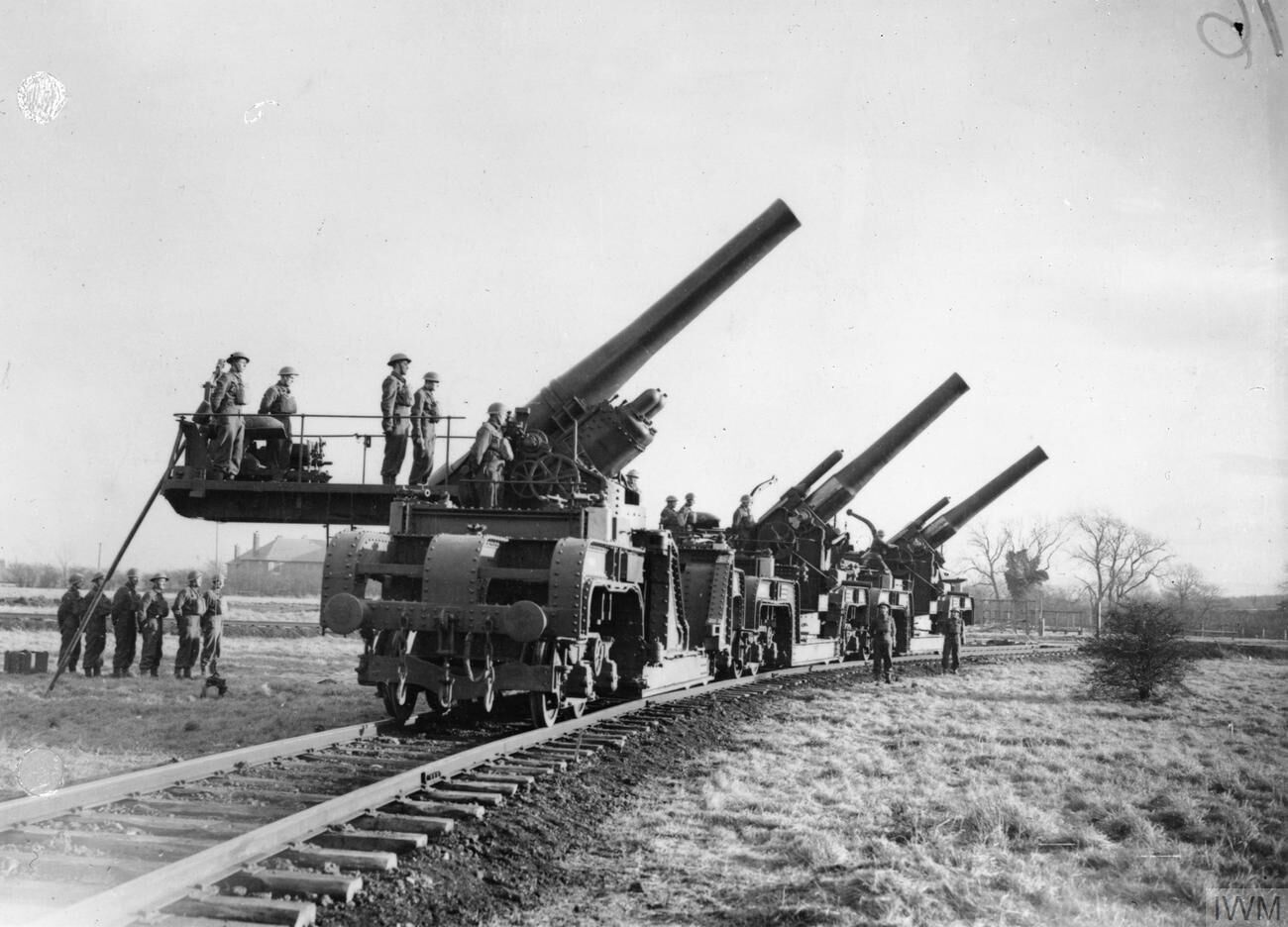 THE BRITISH ARMY IN THE UNITED KINGDOM 1939-45 One Mk V 12-inch railway howitzer (foreground) and two Mk III 12-inch railway howitzers at Catterick.